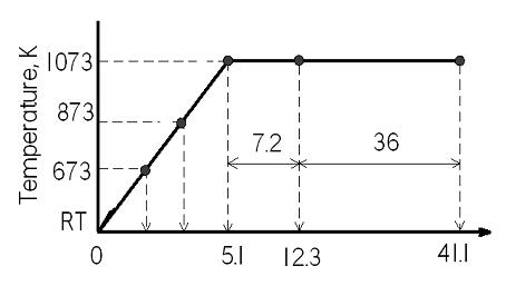 Scanning electron micrograph of the rolled nickel and titanium sheet composite. (b) Changes due to interdiffusion as the sample is heated according to the schedule illustrated. (c-e) Formation of TiNi shape memory metal and illustration of the Kirkendall porosity